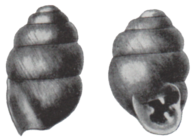 Vertigo moulinsiana; pulmonate land snail species